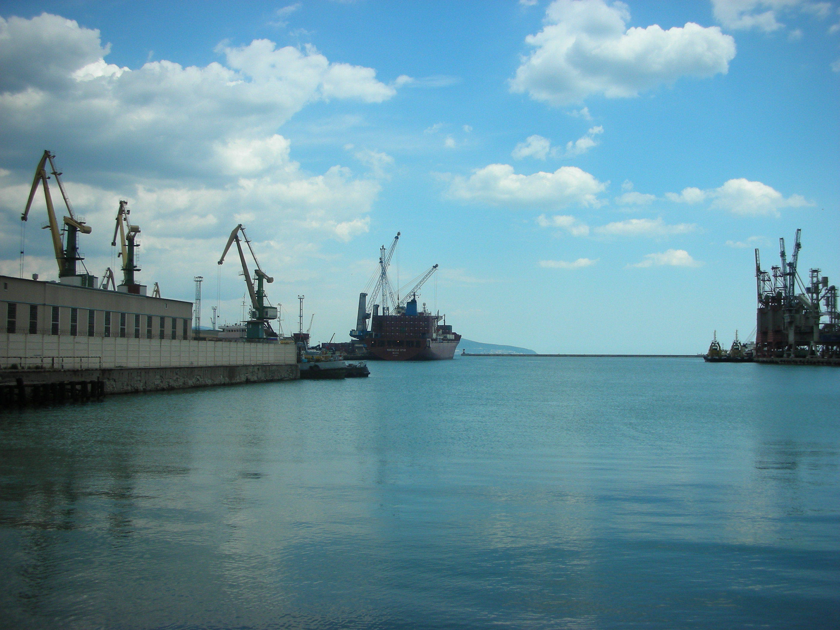 West Port District Novorossiysk